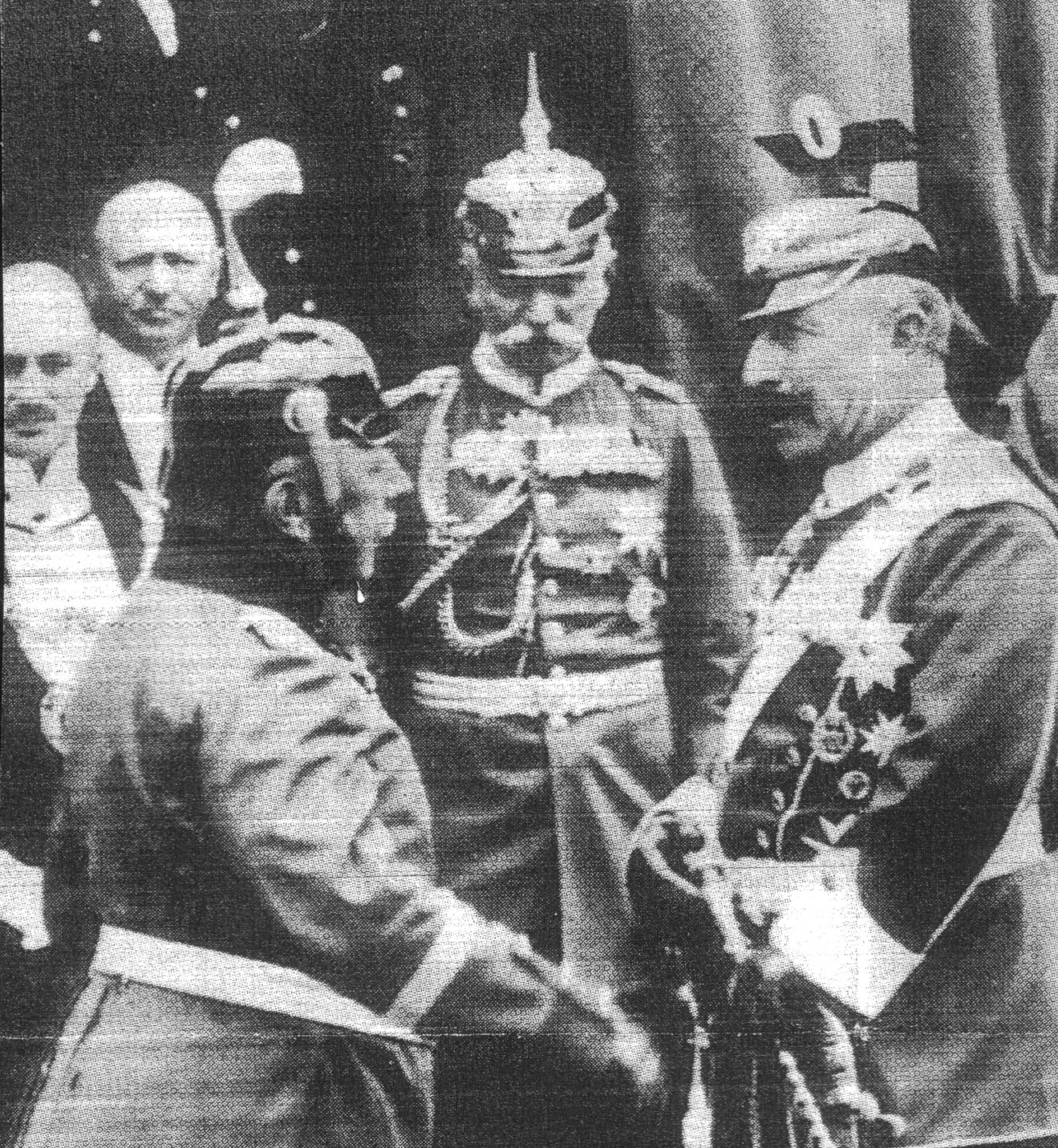 Beschreibung: Generalfelmarschall von Plessen (Bildmitte) beobachtet Kaiser Wilhelm II. und den Sieger von Lüttich, General Otto von Emmich Quelle: Foto gescannt und selbst bearbeitet; das Originalfoto stammt von einem mir unbekannten Fotografen und befand sich in einer FAZ Ausgabe mir unbekannten Datums Datum des Originalfotos: 1914 Urheber: unbekannt